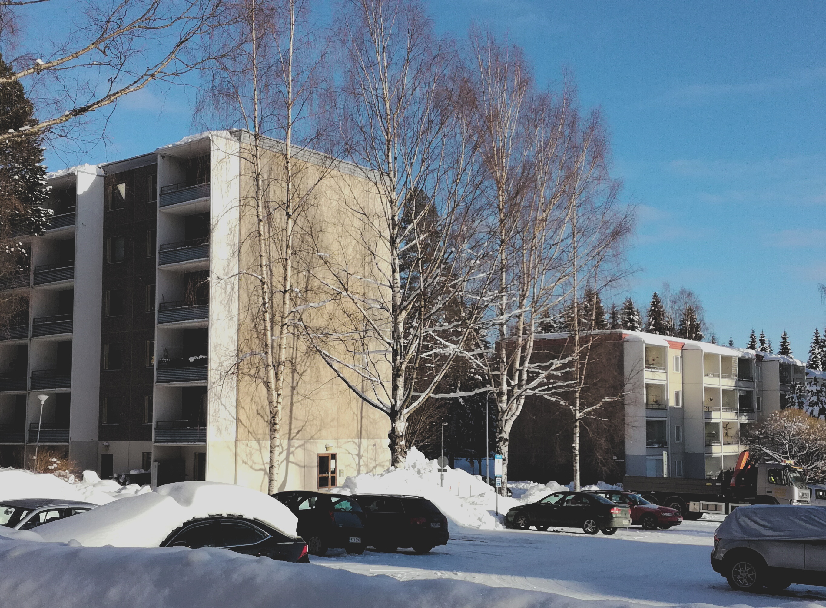 Sulun lähiö Jyväskylässä Huhtasuon kaupunginosassa